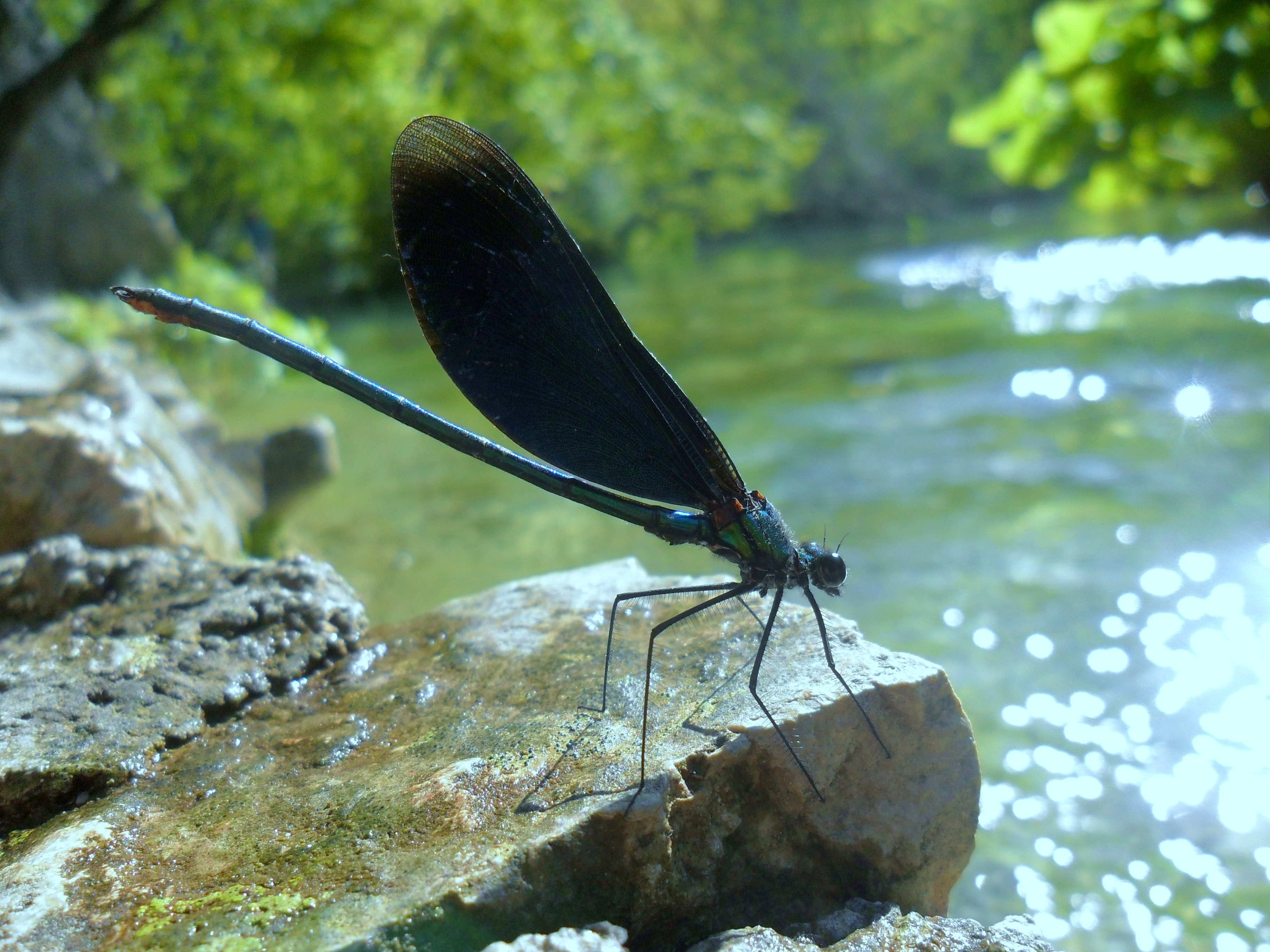 A male Beautiful Demoiselle damselfly (Calopteryx virgo) in the Plitvice Lakes National Park, Croatia.